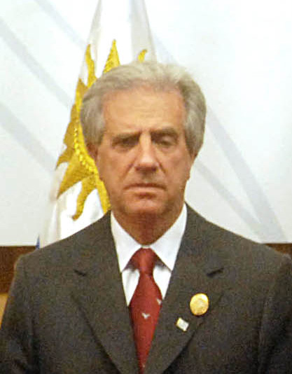 President of Uruguay, Tabaré Vázquez